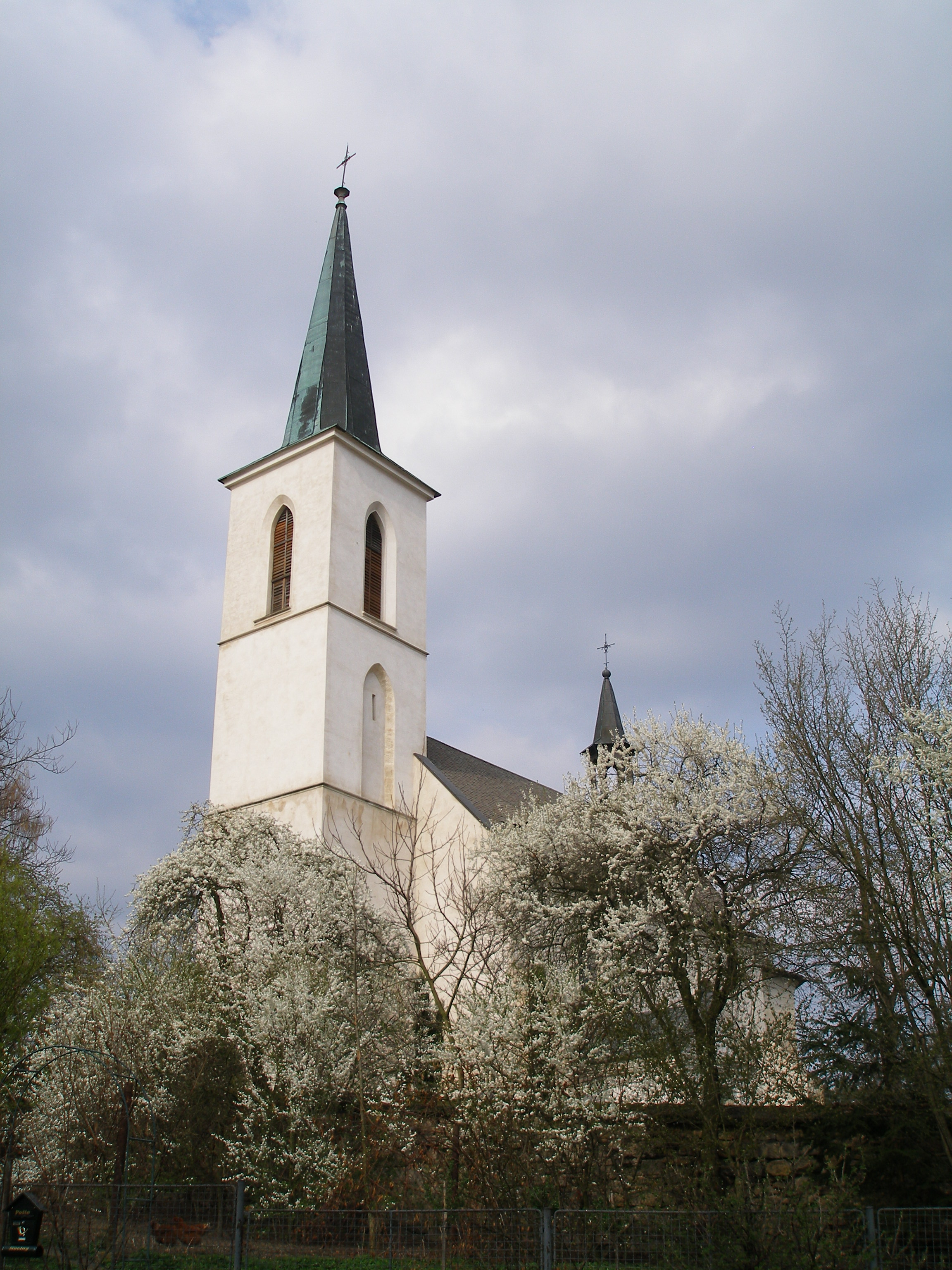 Church of the Assumption in Solec.